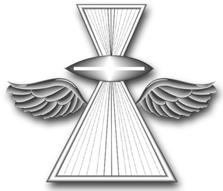 US Navy Photographer's Mate (PH). Winged graphic solution of photographic problem. (Disestablished and converted to MC, 1 Jul 06.)